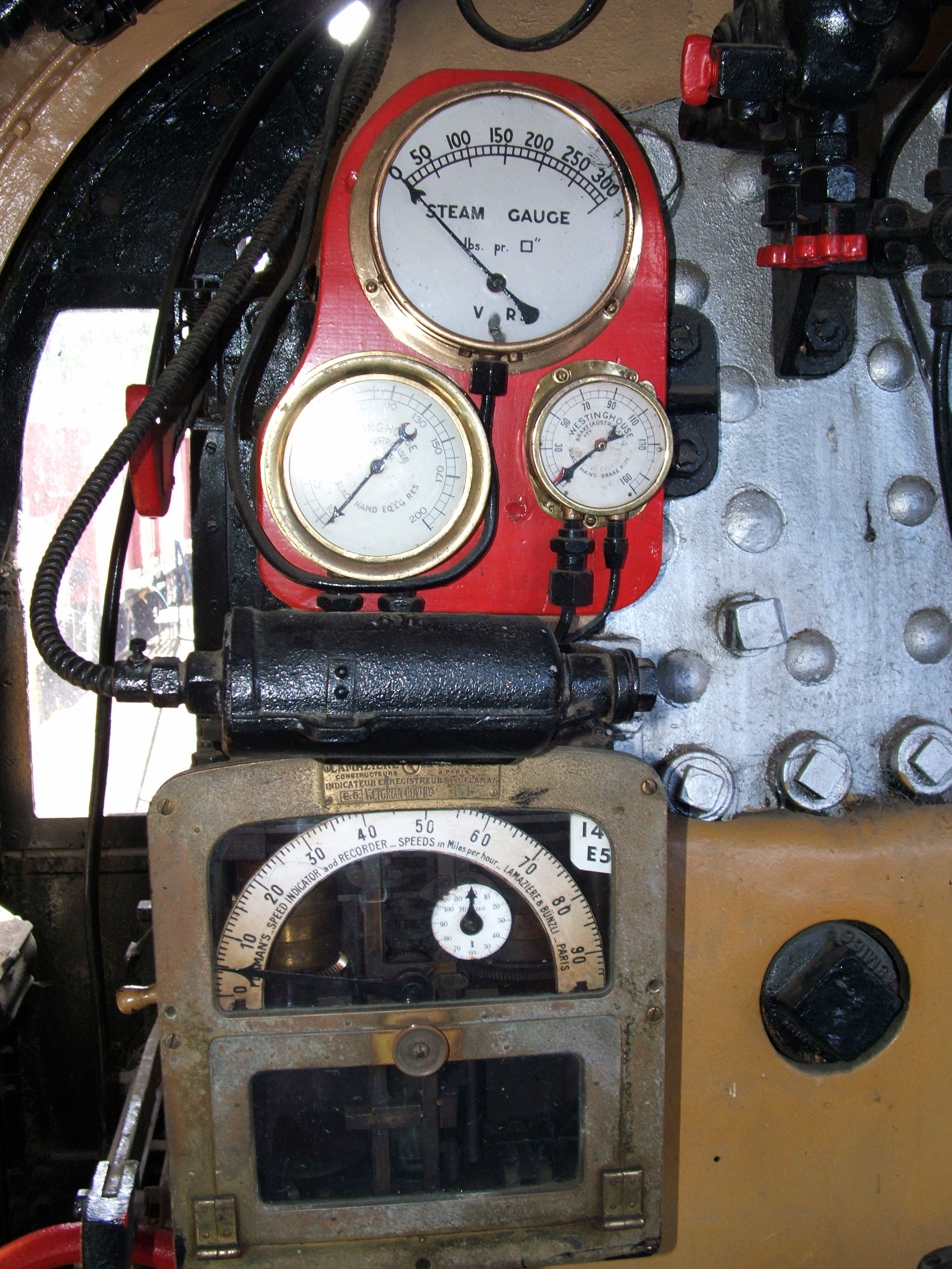 Driver's view of instruments in Victorian Railways H class locomotive H 220, including boiler pressure gauge, train and engine air brake pressure gauges, and the Flaman Speed Indicator and Recorder.